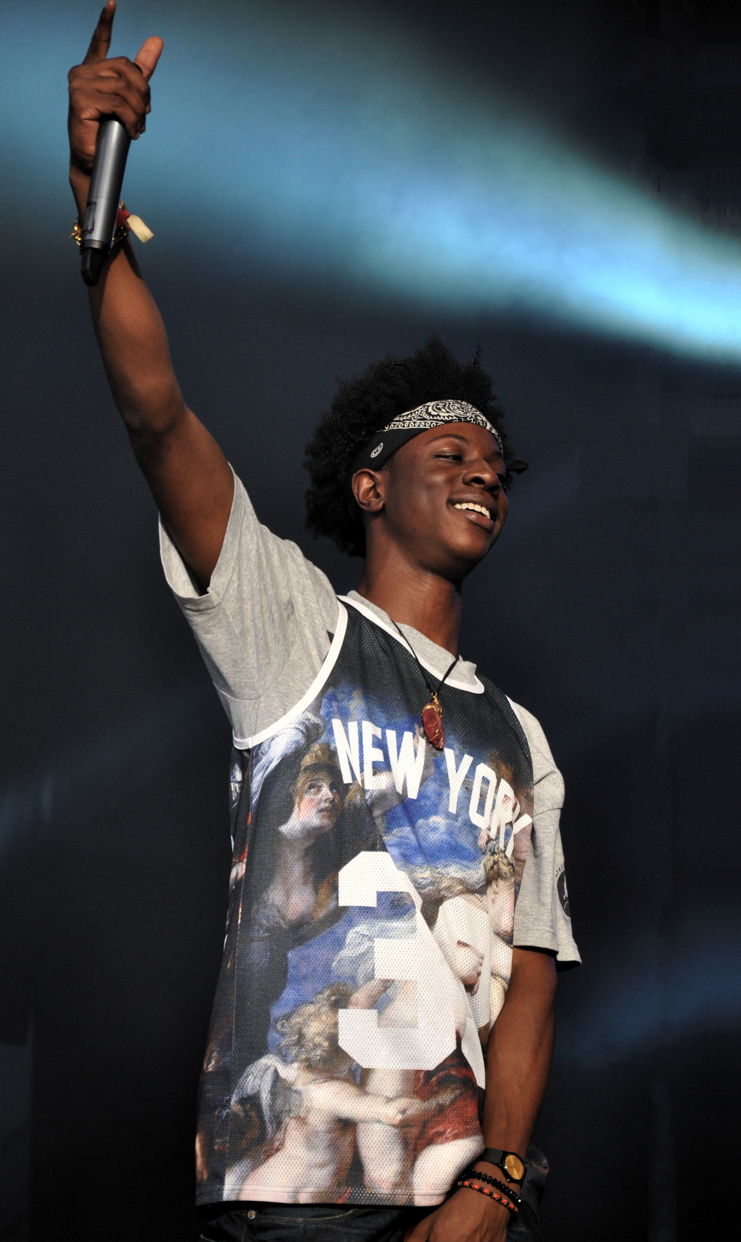 Joey Bada$$ at Splash! festival 2013